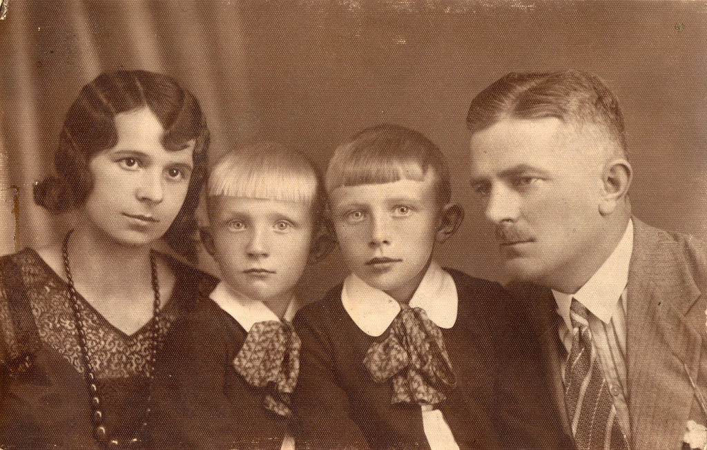 The Witecki family in the 1930s. From left Janina (mother), Janusz (brother), Wiesław and Klemens (father)